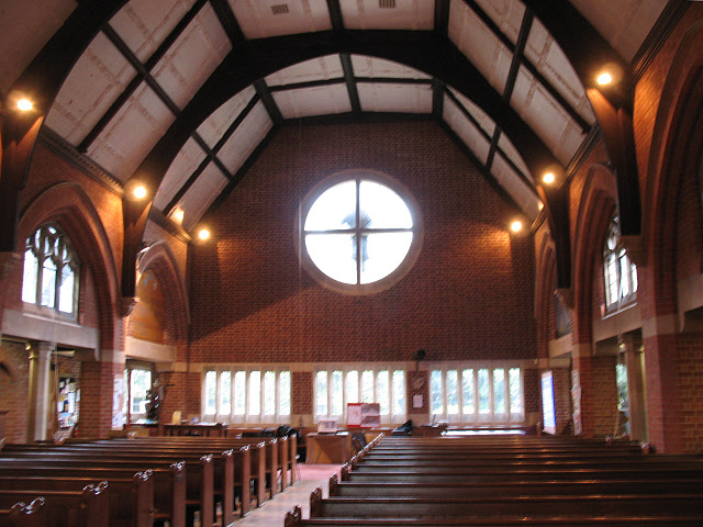 Church of the Good Shepherd, Tadworth: nave The interior of the church, looking west. For a brief history see 1723161.